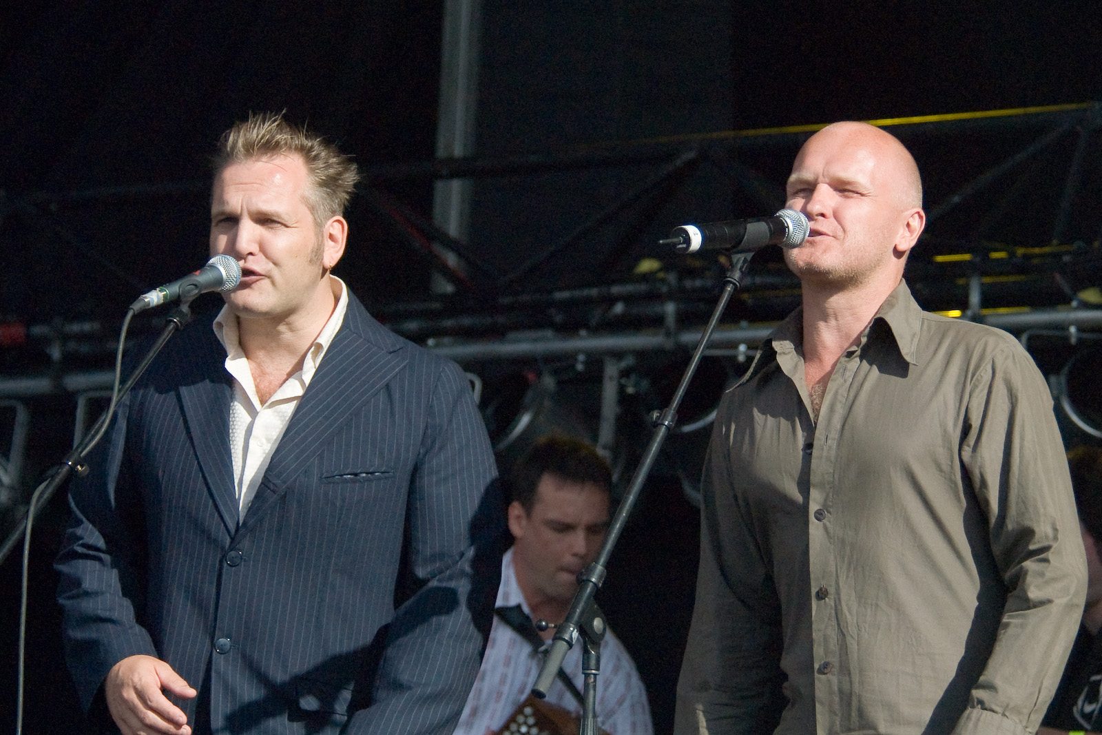 Kommil Foo, 0110 concert on 1 November 2006 in Gent, Belgium